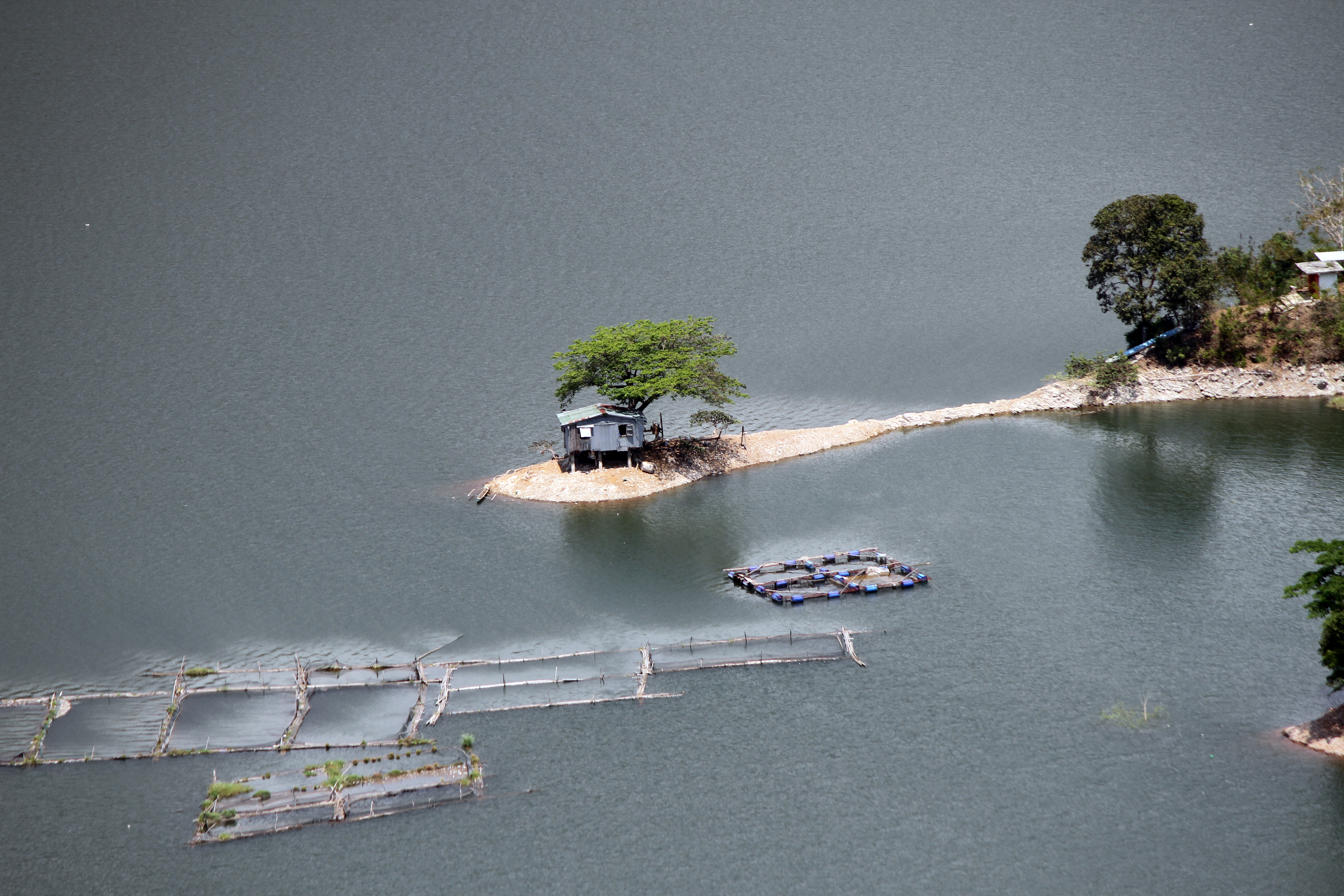 A very interesting fisherman's hut under the tree that could attract any photographer or visitor travelling in Bokod, Benguet, Philippines. Photo by Jose B. Cabajar taken at Lolo Cancio Inn and Restaurant.